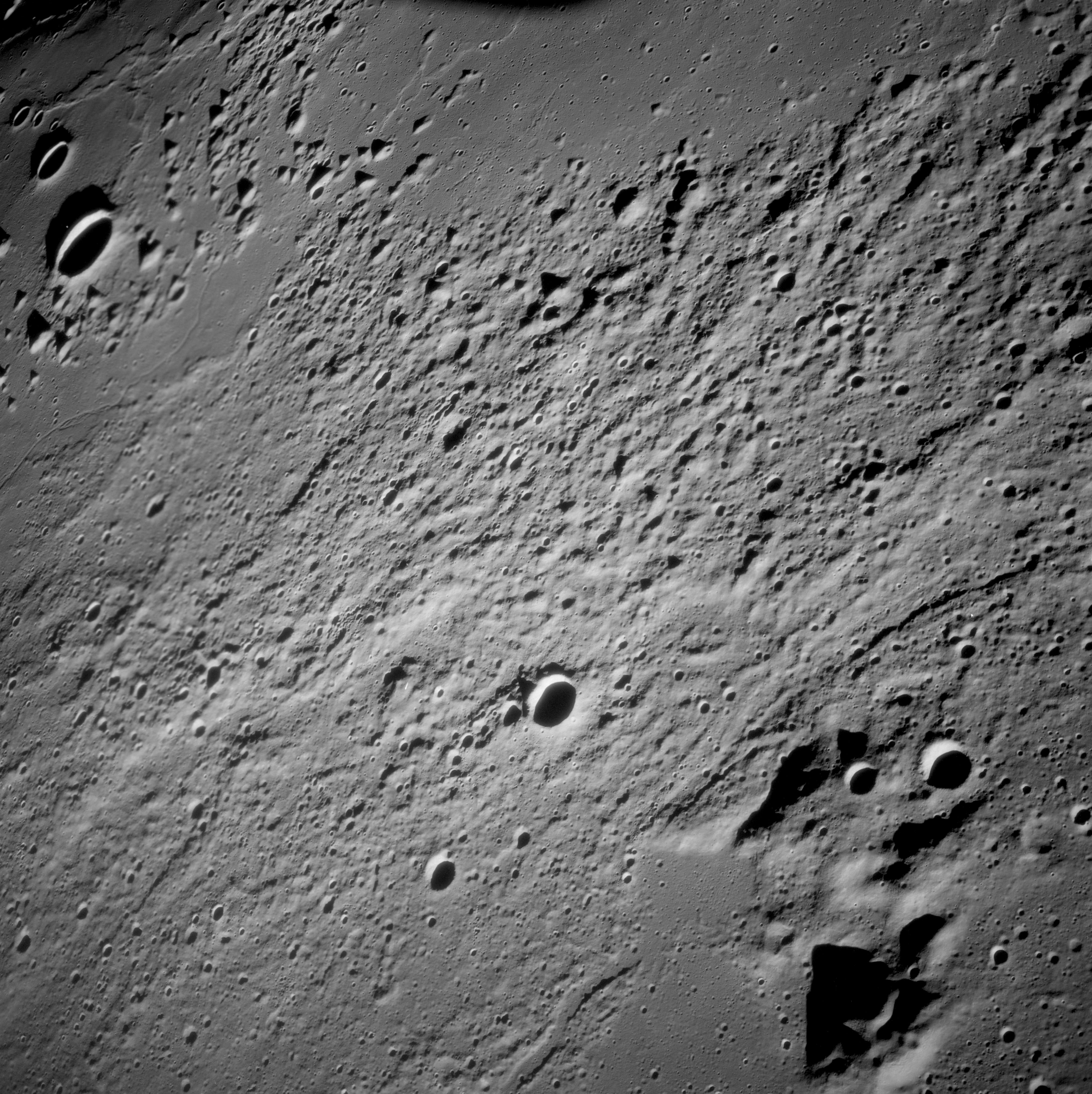 Oblique view of the Fra Mauro formation, the landing site of Apollo 14. This image was taken on the Apollo 12 mission from lunar orbit. NASA image designation: AS12-52-7597.This is figure 1-10 of the Apollo 12 Preliminary Science Report, which has the following caption:An oblique view looking northwest at the highland area north of the crater Fra Mauro. This photograph was taken from the CM at an orbital altitude of 60 n. mi. The Sun elevation angle was 7'. The Sun will be only slightly higher when Apollo 13 lands in this area. (Arrow indicates landing site.) Although taken early in the mission, this photograph supplements the site photography taken later.